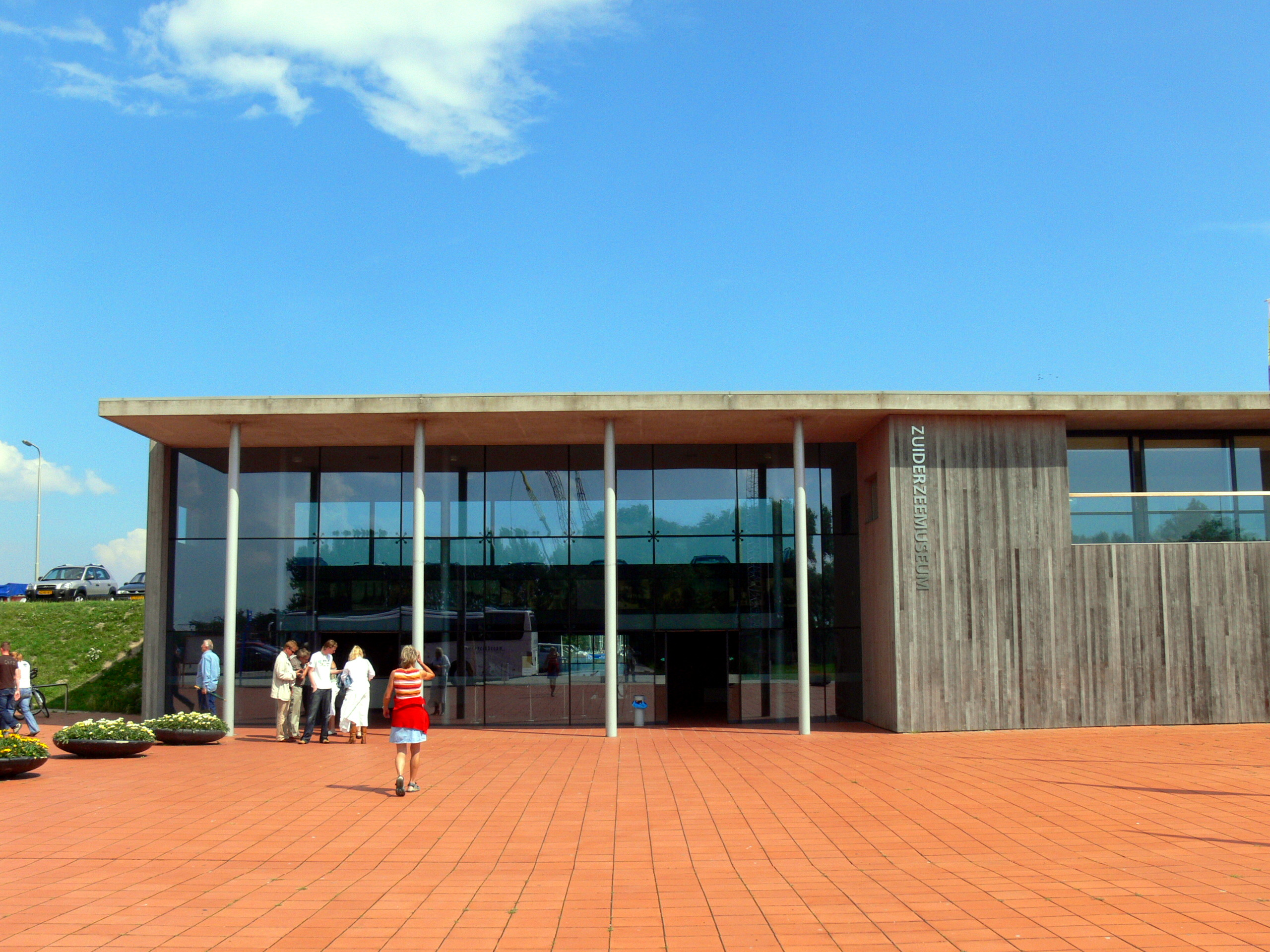 Zuiderzeemuseum. Entrance hall